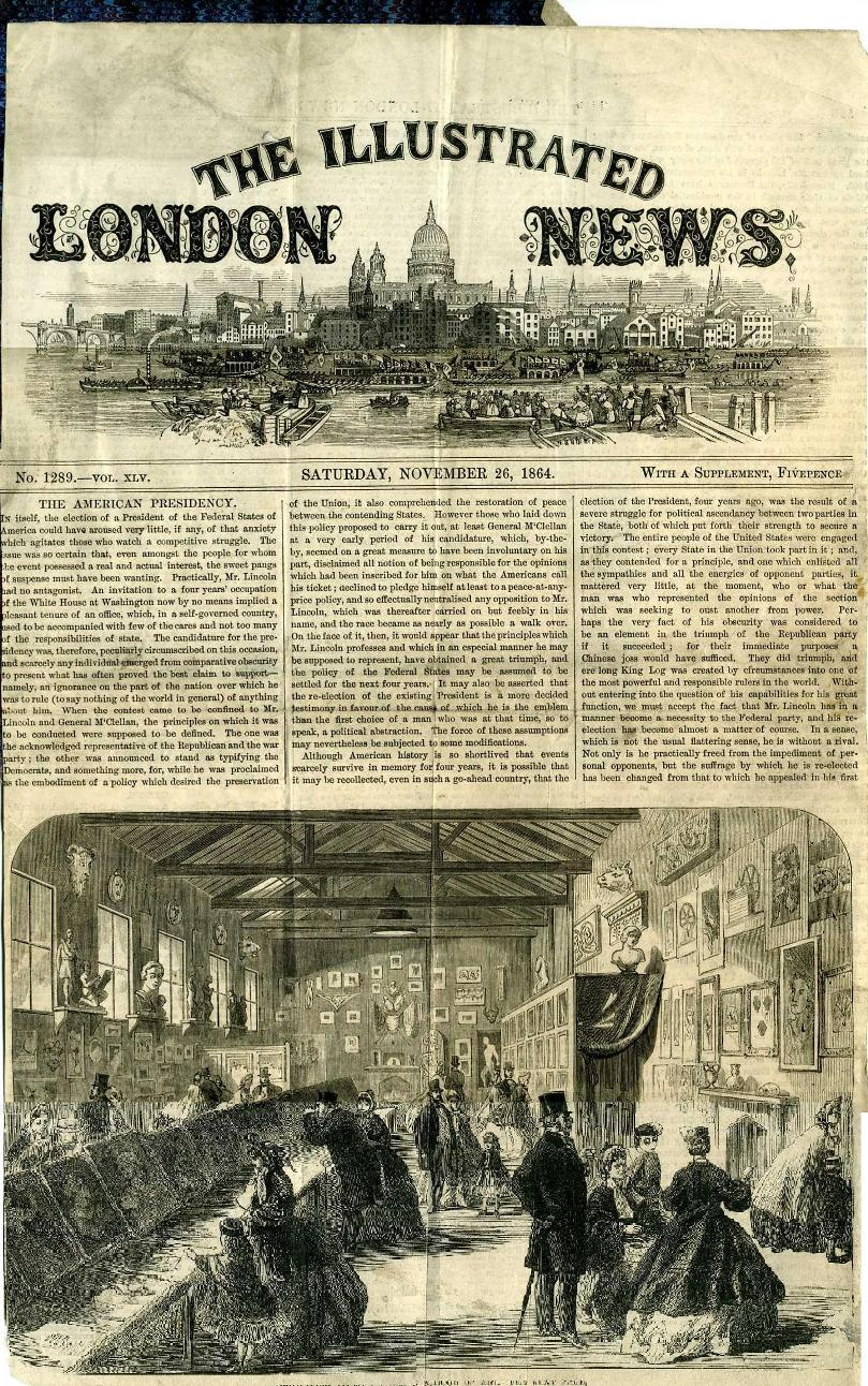 Front page of The Illustrated London News, dated 26th November, 1864. Text discusses the re-election of US President Lincoln; illustration of an exhibition of students' art in the Lincoln School of Art.